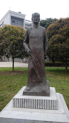 Zhang Shouyong